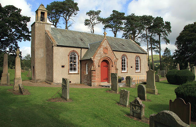 Skirling Parish Church This small country church on a mound overlooking the village was rebuilt in 1720 with further alteration works carried out in 1891.